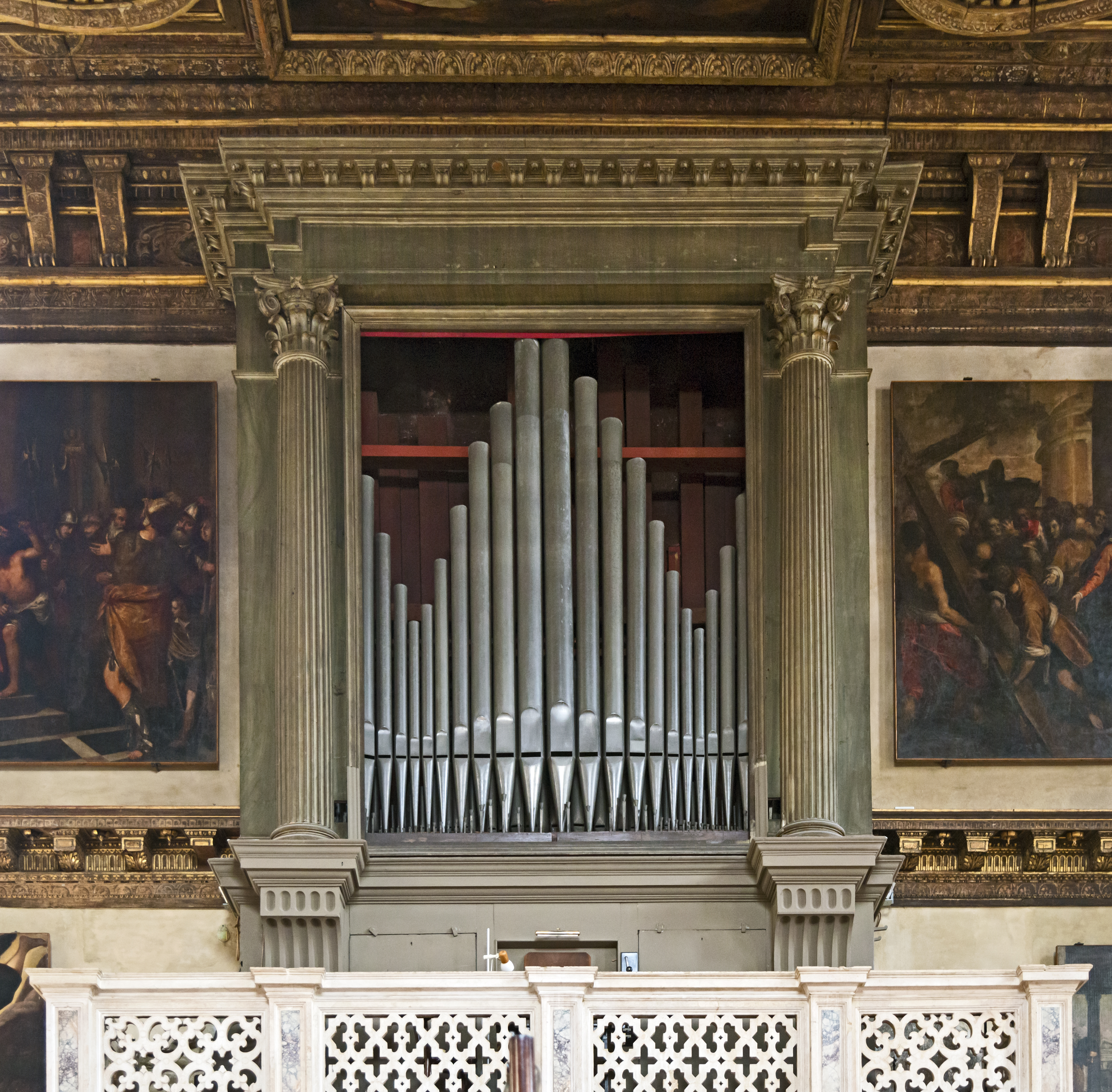 San Zulian, Venice, the central ceiling - The organ of the eighteenth century by Gaetano Callido op.12 (1764).